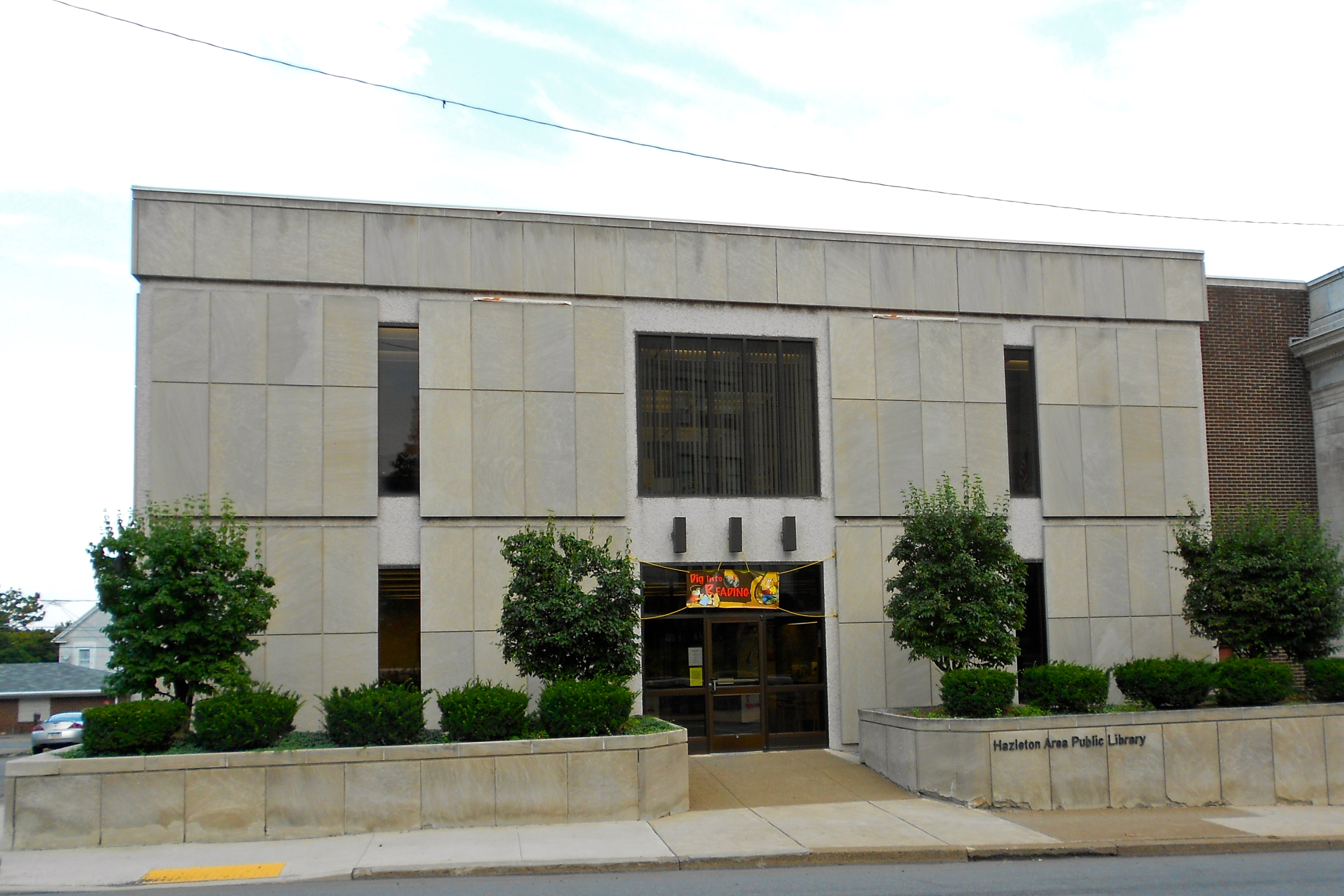 Hazleton Area Public Library in Hazelton, Luzerne County, Pennsylvania